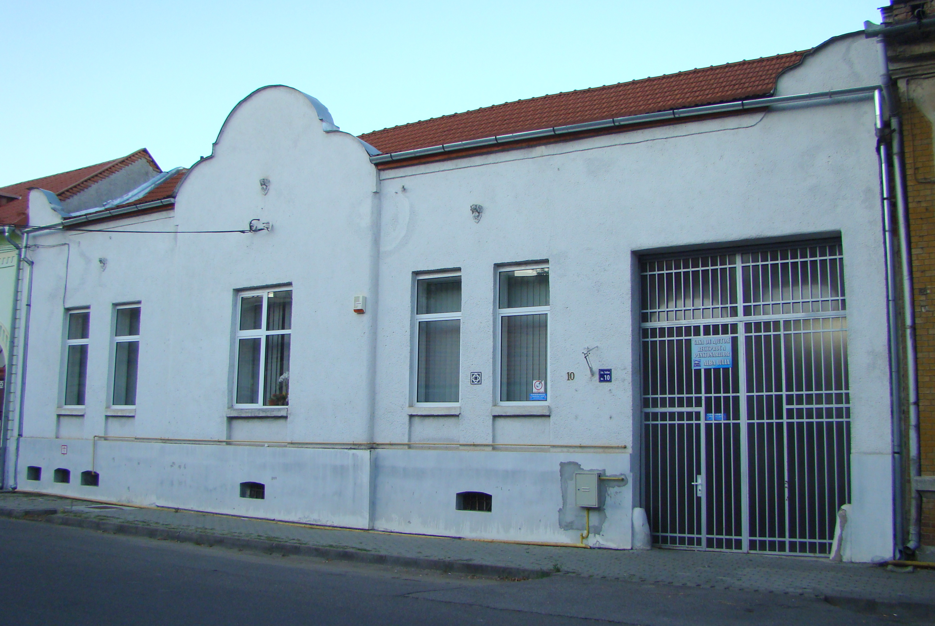 House, historic monument, Teilor street, number 10, Alba Iulia, Alba county, Romania